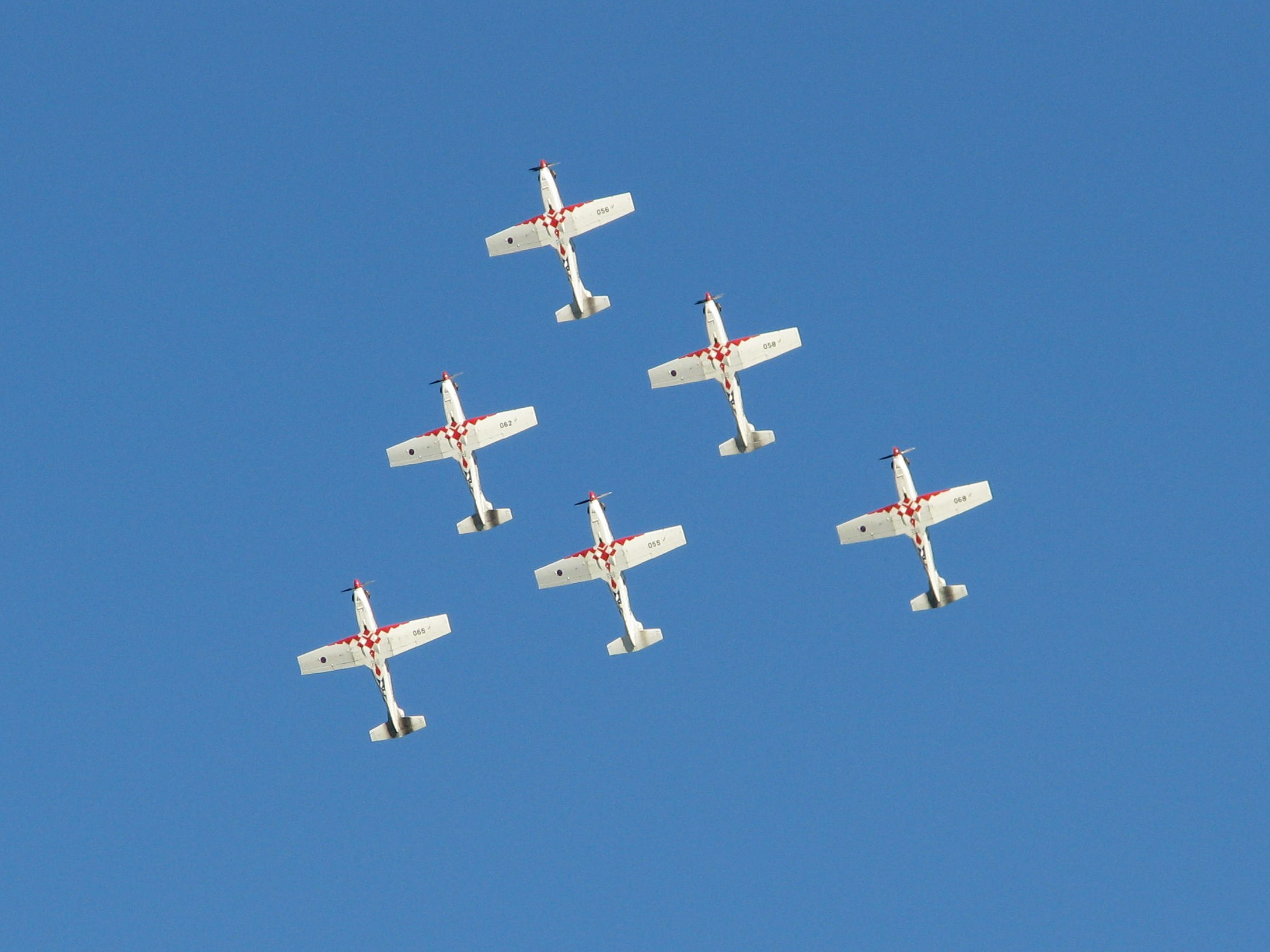 Croatian air force aerobatic display team Wings of Storm, Karlovac, 2009